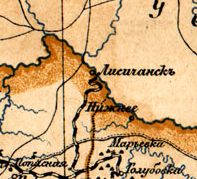 Lisichansk on map from encyclopedia of Brokhaus & Efron